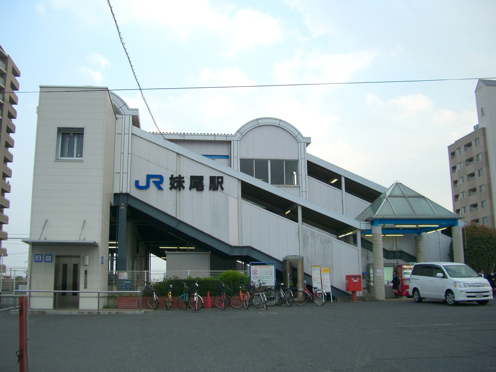 West Japan Railway Uno Line（Seto-Ohashi Line） Senoo Station Building （West Gate）